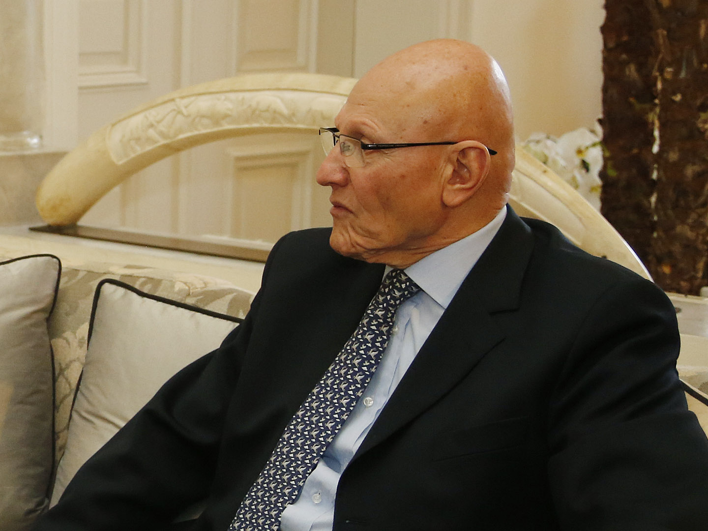 Prime Minister of Lebanon, Tammam Salam